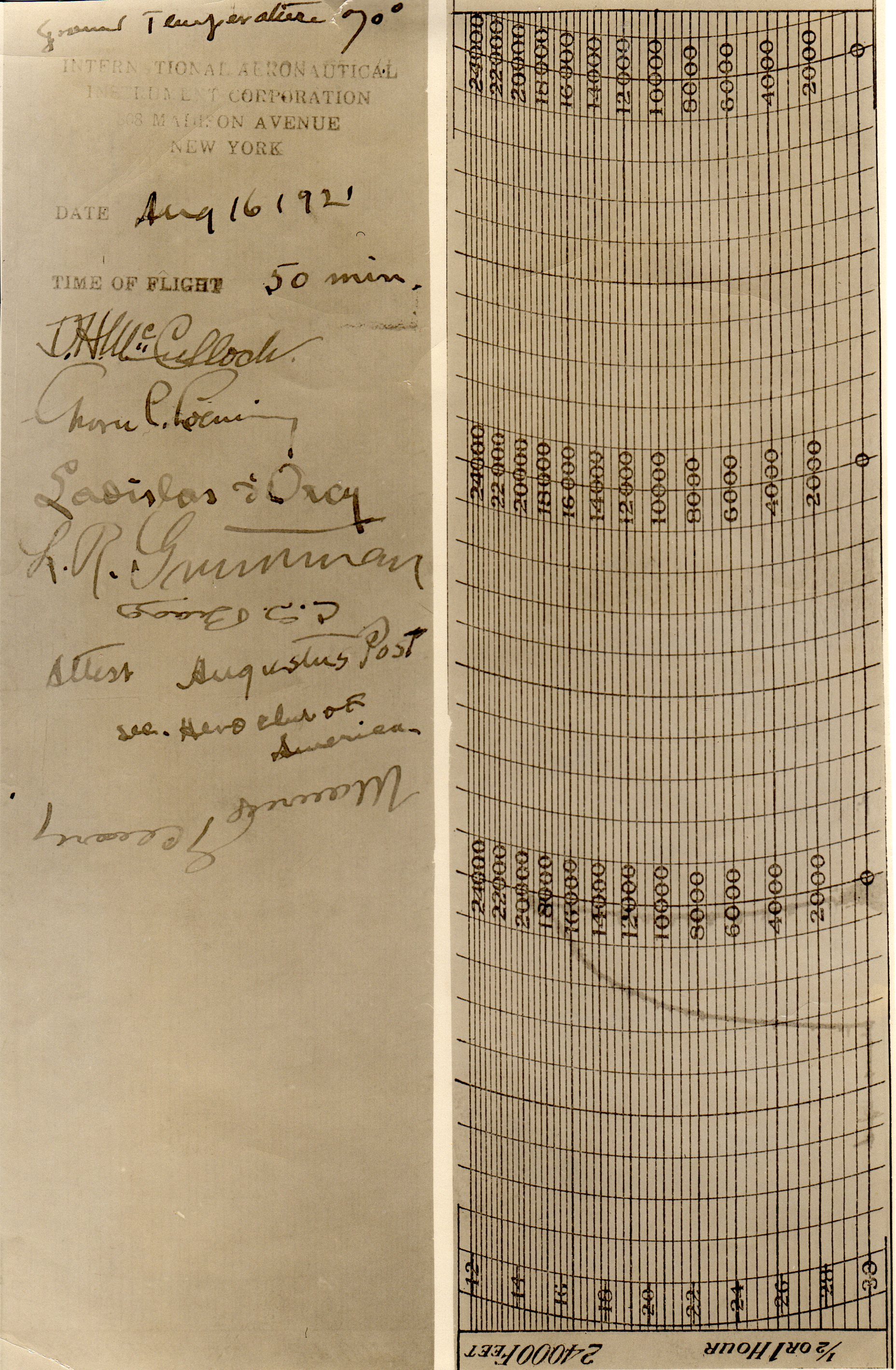 This is a photo of the altitude chart from the August 19, 1921 seaplane altitude record setting flight of the Loening Model 23 seaplane piloted by David H. McCulloch. As shown, the back of the chart is signed by 3 passengers (Grumman, Loening and D'Orcy) as well as others.